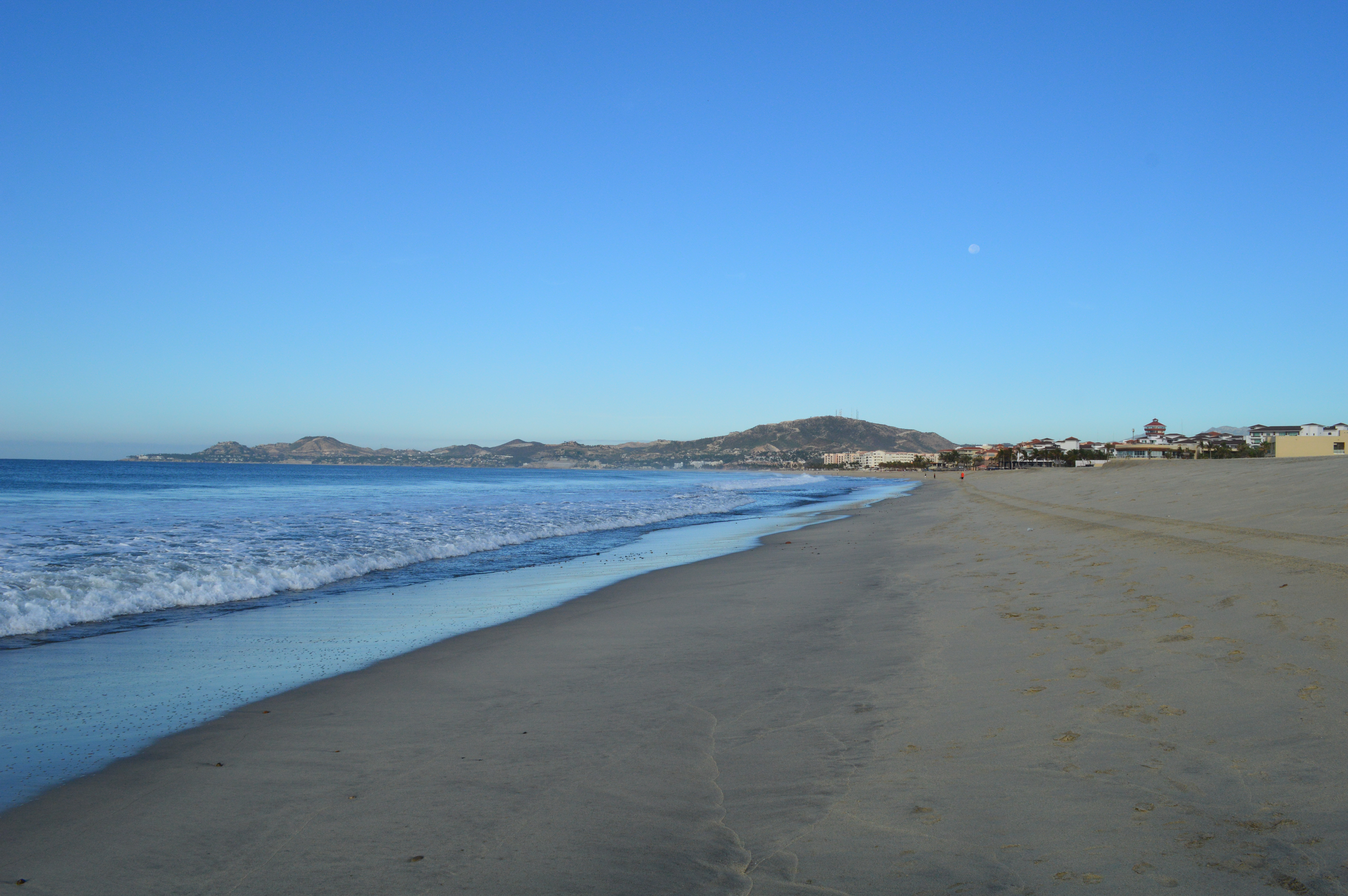 San Jose del Cabo beach looking southwest from the estuary in Baja California Sur